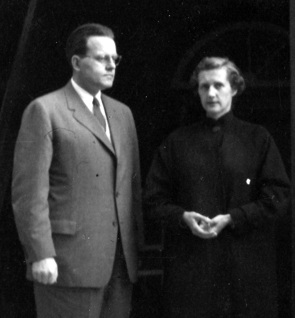 Gabriel Hauge and wife in Gloppen Norway 1955